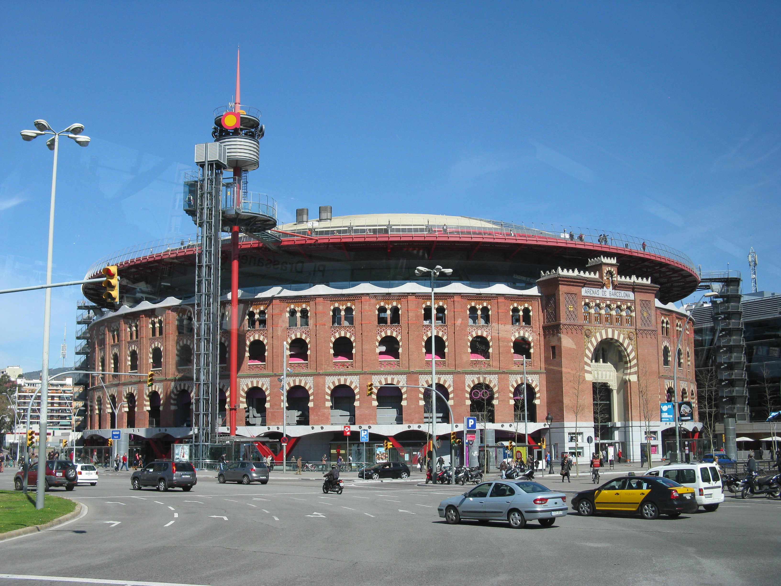 Plaza de toros de las Arenas in Barcelona.